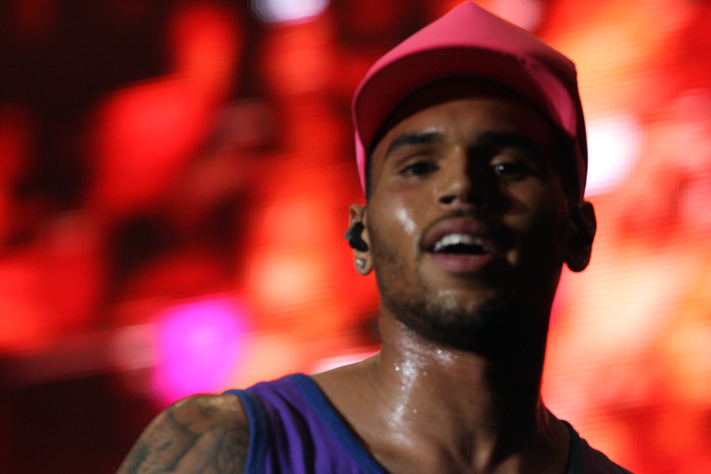 Supafest 2012, Sydney, Australia; Chris Brown, Kelly Rowland, Lupe Fiasco, Naughty By Nature and more